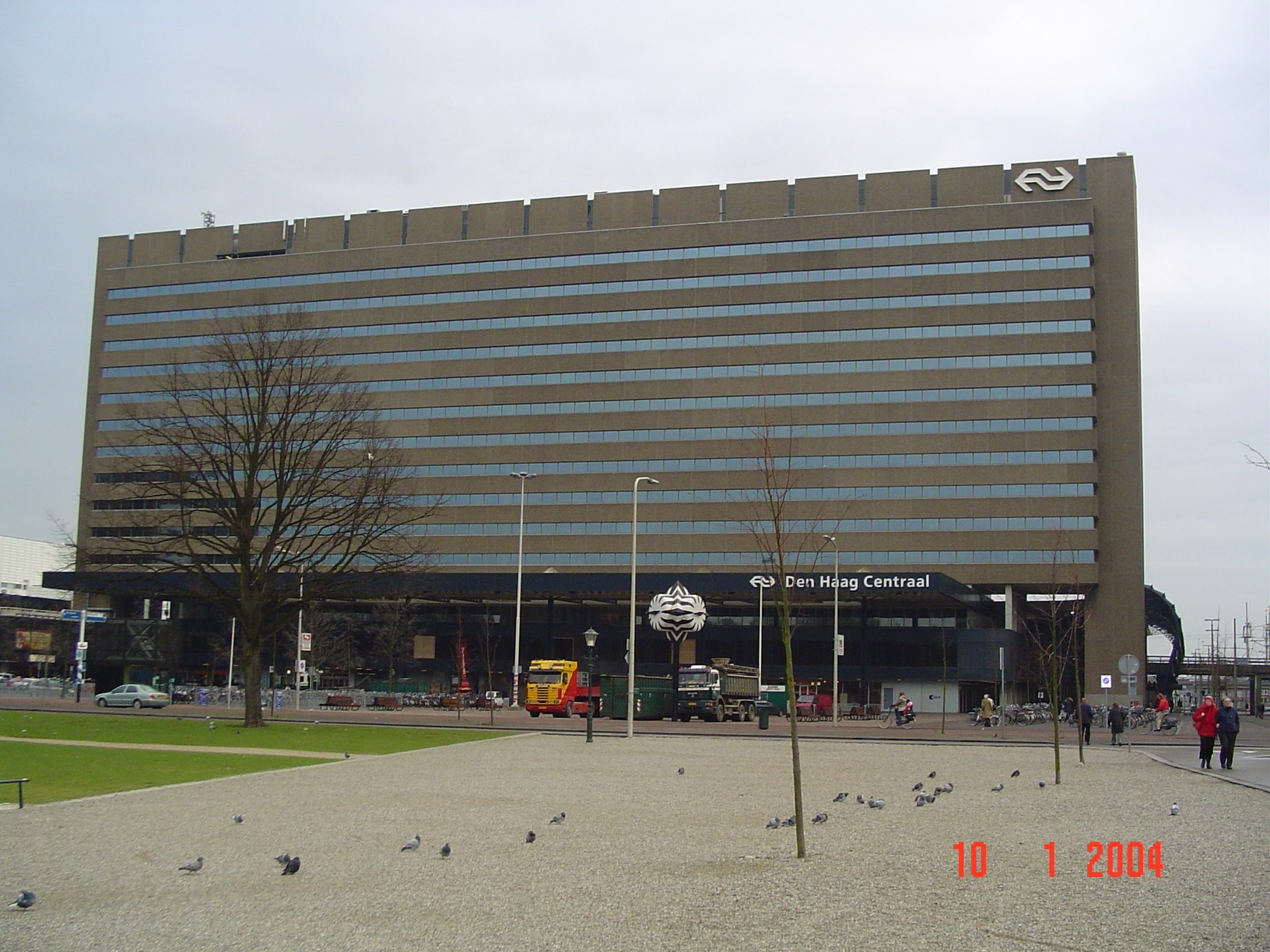 Den Haag Centraal Station in Den Haag, The Netherlands